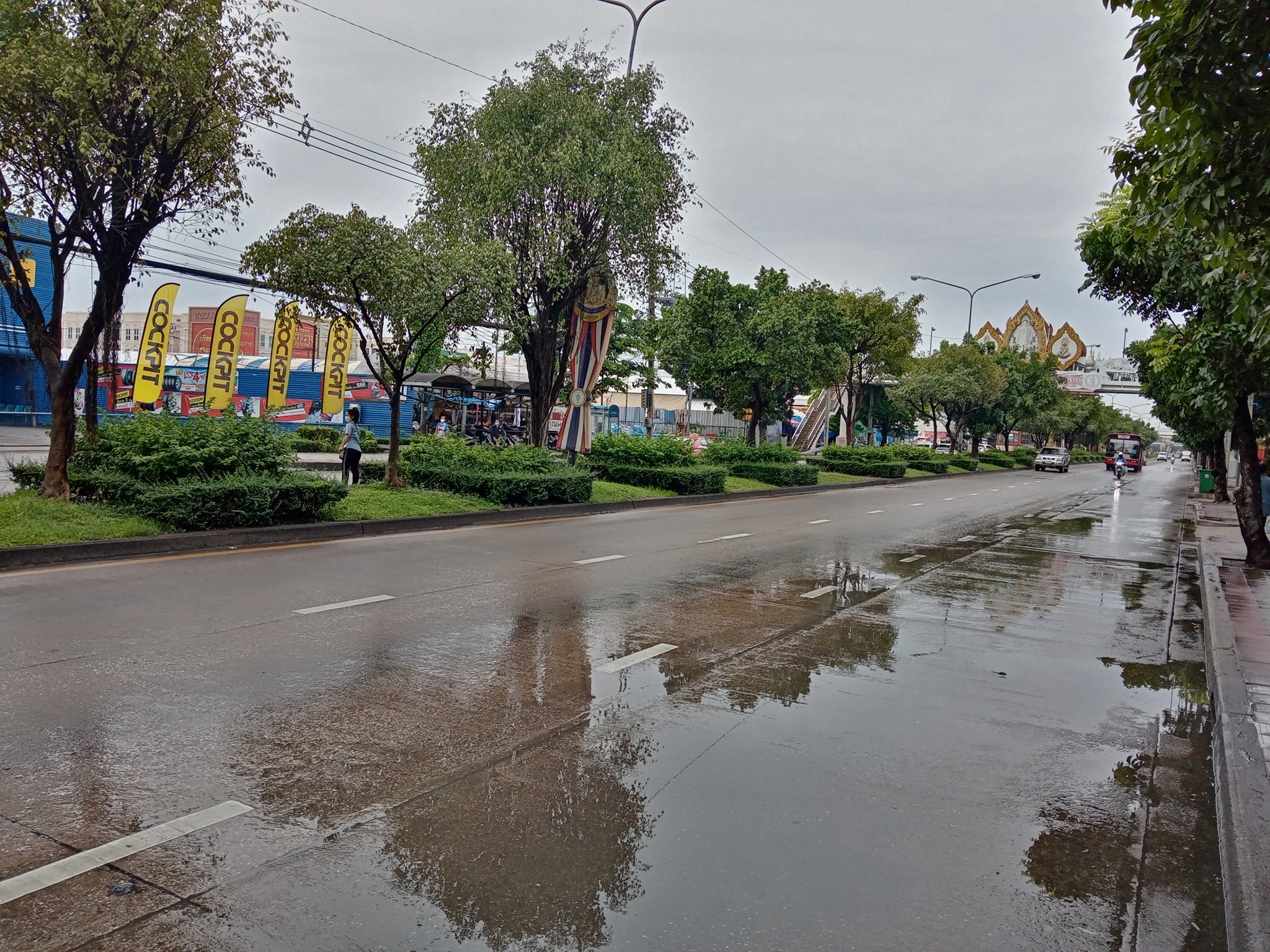 Nawamin Rd., Bueng Kum, BKK.